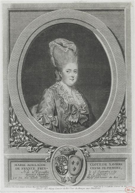 Marie Clotilde of France while Princess of Piedmont